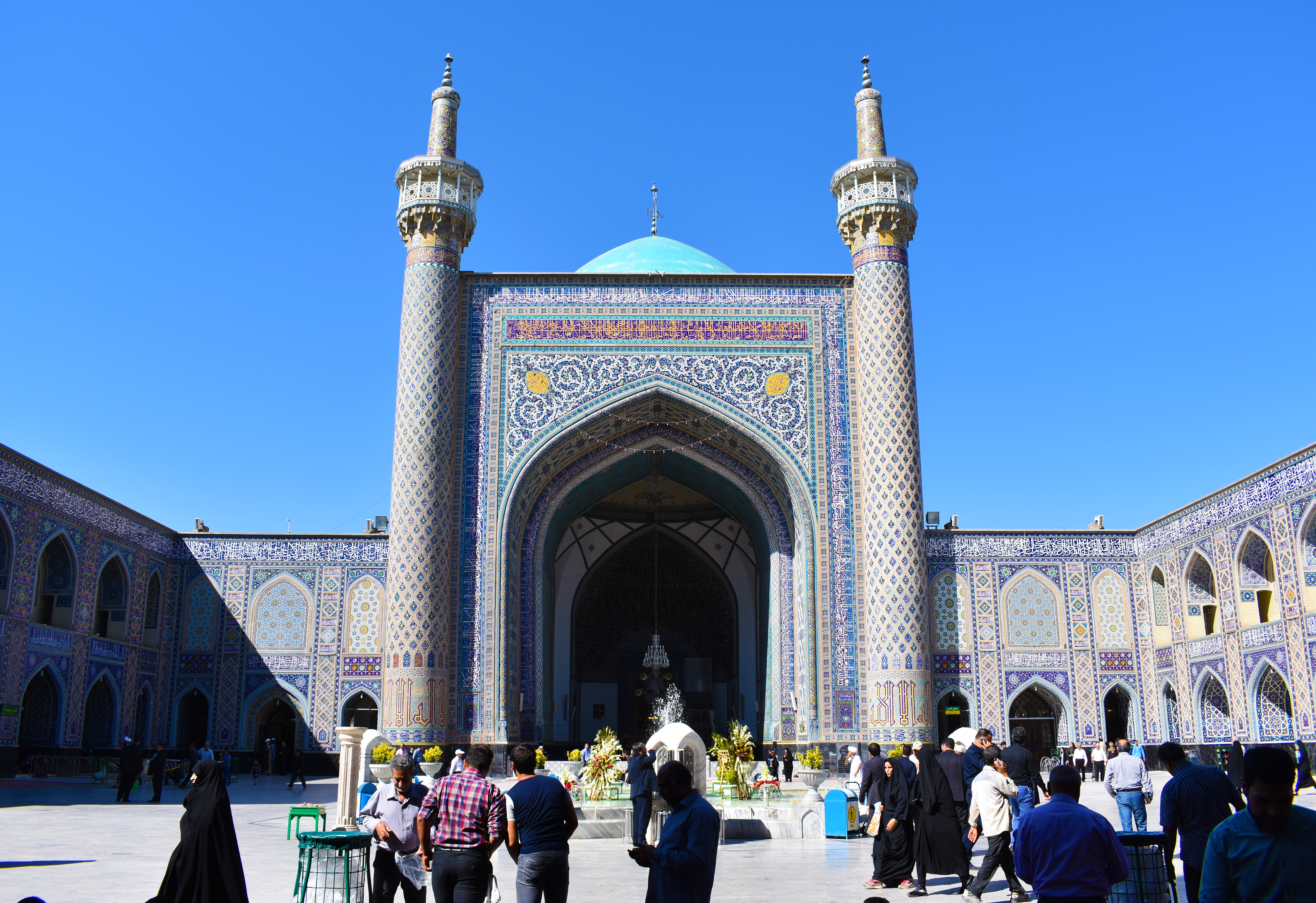 This photograph is a view of the famous Timurid era built Goharshad mosque, adjacent to the holy shrine of Imam Reza. The photograph has been taken while facing the Iwan-e-Maqsura (the monumental iwan) and the dome, and minarets. Over the course of centuries the mosque has undergone numerous restorations funded by various rulers. The mosques most recent set of restorations occurred in the 1960's and 70's when under the Pahlavi dynasty, the domes outer shell along with the Eastern and Western iwans were dismantled and rebuilt from iron and concrete. Various inscriptions and mosaic work throughout the mosque were also replaced in that period.